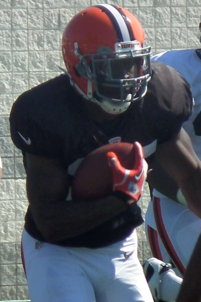 Chris Ogbonnaya of the Cleveland Browns